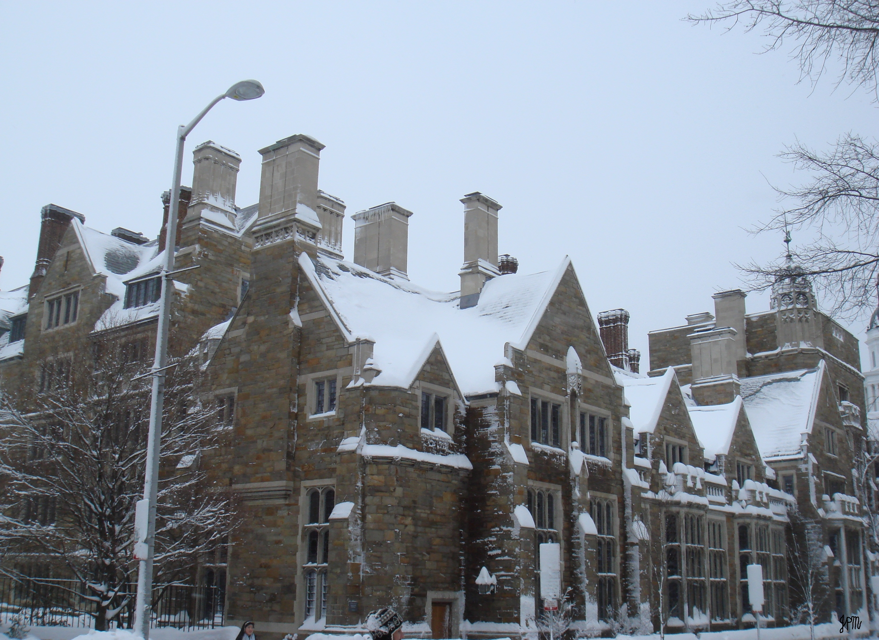 Calhoun College Yale